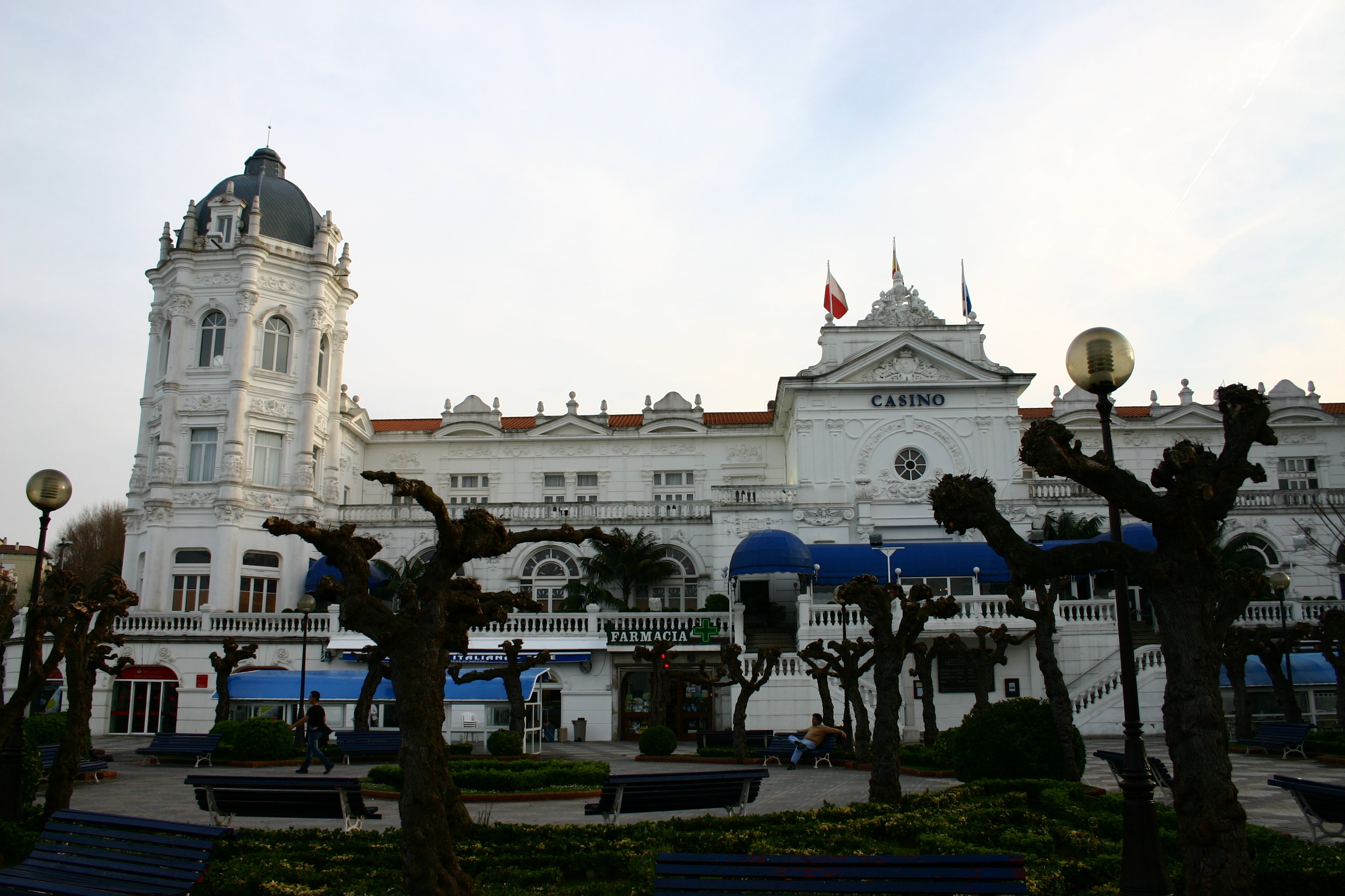 Gran Casino de Santander